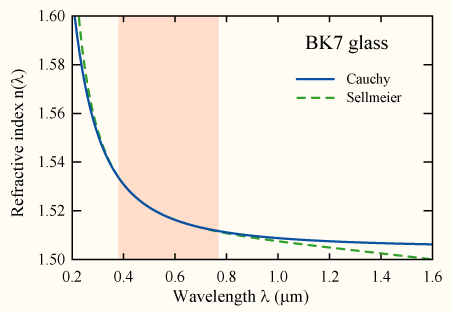 Plot of Cauchy's equation for BK7 glass.By Bob Mellish